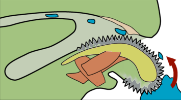 Snail radula in action. Extracted and modified from source below. Changes: improve contrast for radula and odontophore ("tongue"); remove labels as this will be annotated using Template:Annotated image. Citation